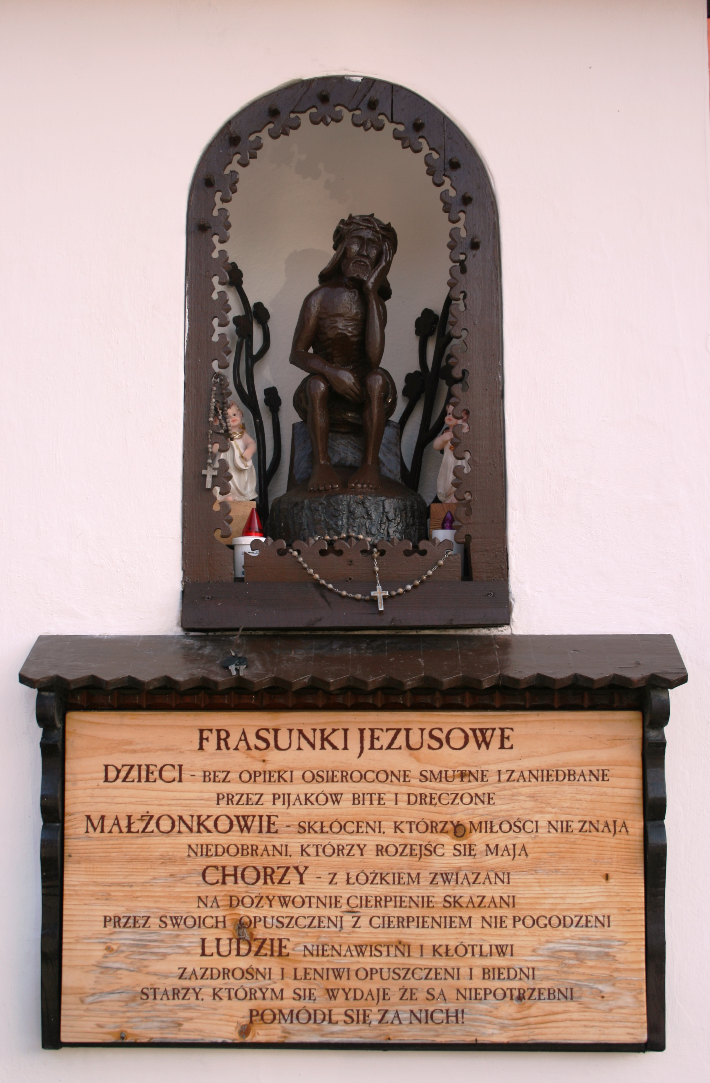 All Saints Church in Krościenko nad Dunajcem (Poland) – gate ornament - świątek